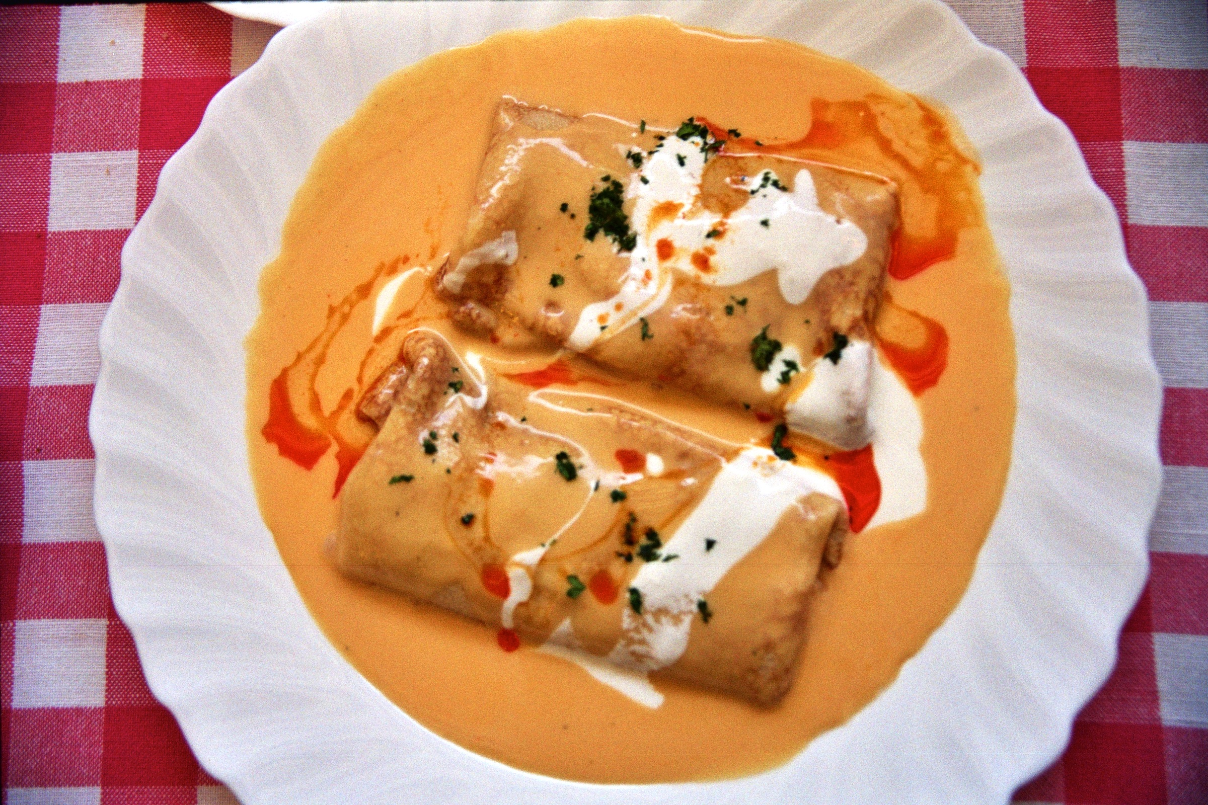 Hortobágyi palacsinta - Hungarian filled savoury pancake, Hortobagy-style